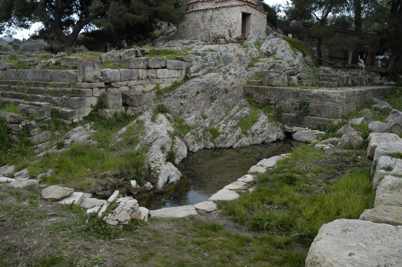 J. Matthew Harrington, personal digital image